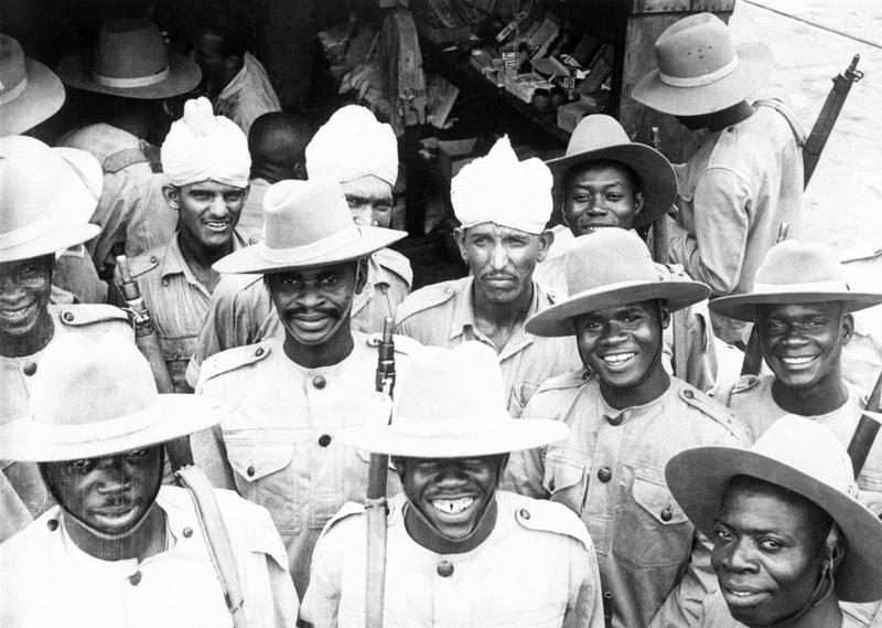 Indian soldiers mingle with men of the 81st West African Division after the latter had arrived in India for jungle training. The first African colonial troops to fight outside Africa, the 81st Division went on to Burma in December 1943. Indian soldiers mingle with men of the 81st West African Division after the latter had arrived in India for jungle training. The first African colonial troops to fight outside Africa, the 81st Division went on to Burma in December 1943.